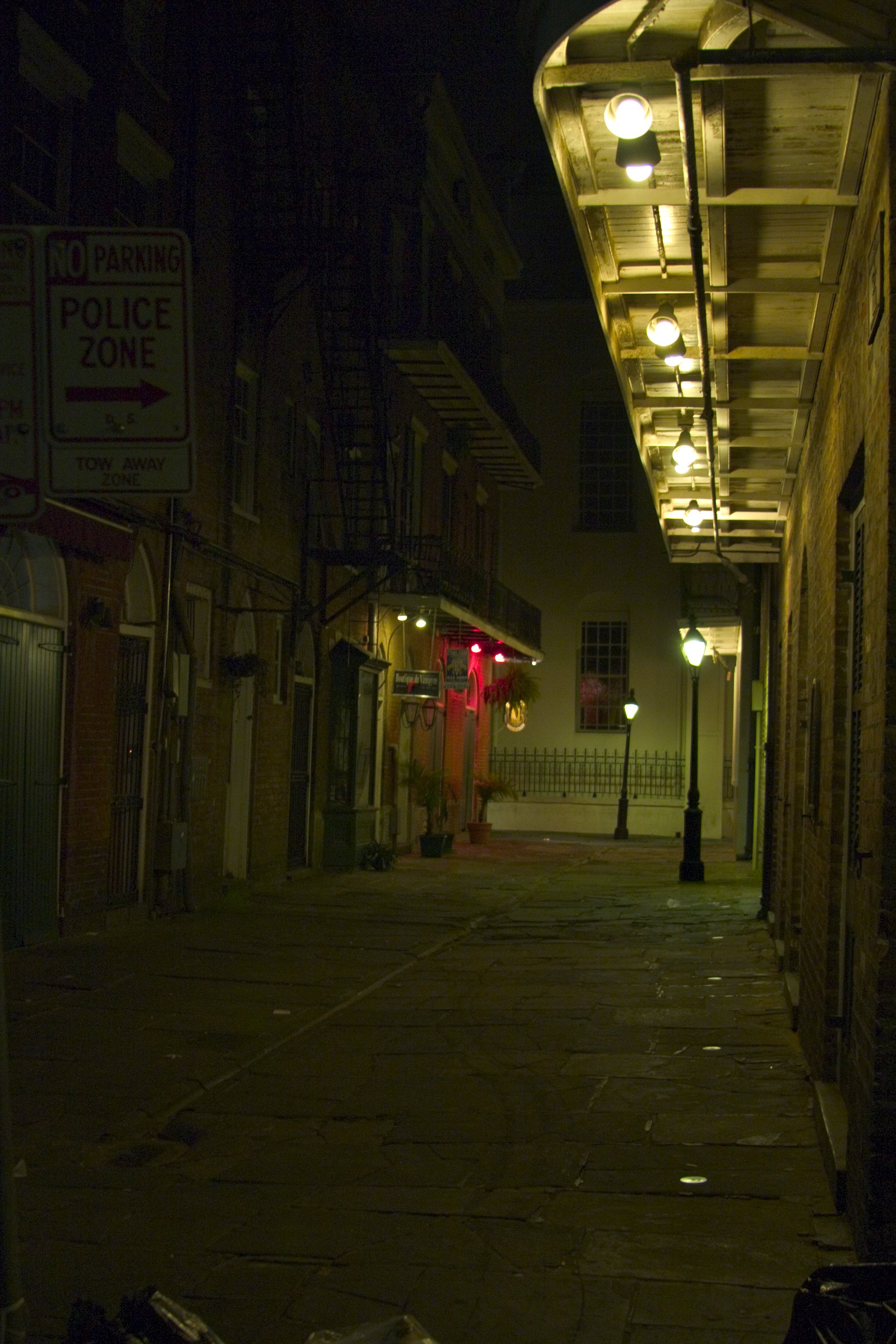 A dark alley in the French Quarter at night. (Cabildo Alley) 03-20-2005 @ 3:45AM